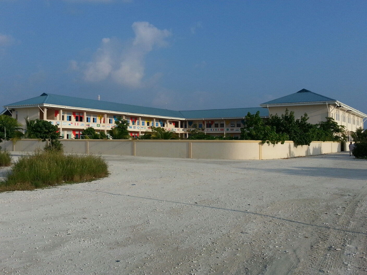 The school teaching for primary grades in Dhuvaafaru.